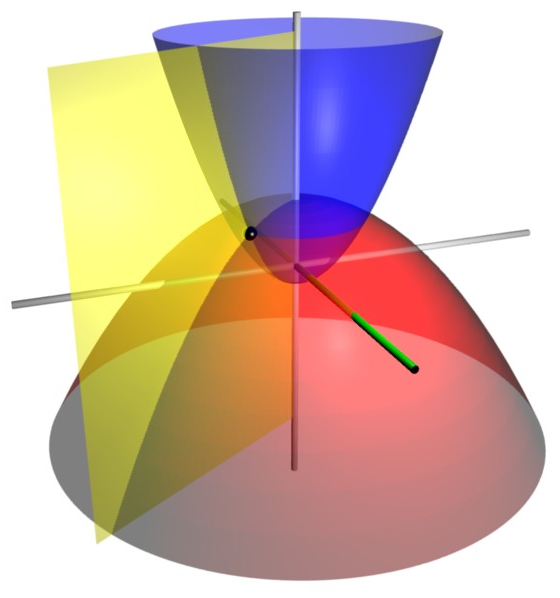 Coordinate surfaces for three-dimensional parabolic coordinates, which are the two-dimensional coordinates rotated about their common symmetry axis.